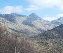 Sgurr Dhomhnuill